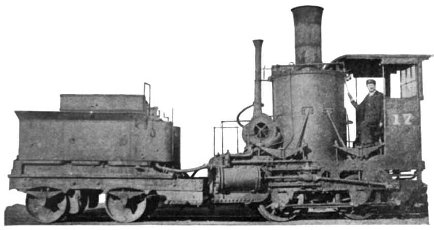 Original captions and text: "Fig: 18. Gillingham & Winans' "Crab" Locomotive" "Fig. 18 is copied from a photograph taken after the engine had been in service for many years." (Forney) "Fig. 8. A Crab" (Bell). This locomotive substantially conforms to the drawings in Winans' US Patent 308, granted in 1837. To reduce artifacts from both printing and scanning, this image is a composite of 3 images, 2 from Forney, 1 from Bell.